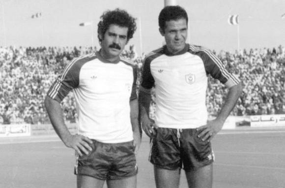 Roberto Rivelino from left and right Najeeb Al Imam in 1979 in Saudi Arabia. When they were playing in the Al Hilal Saudi Club.